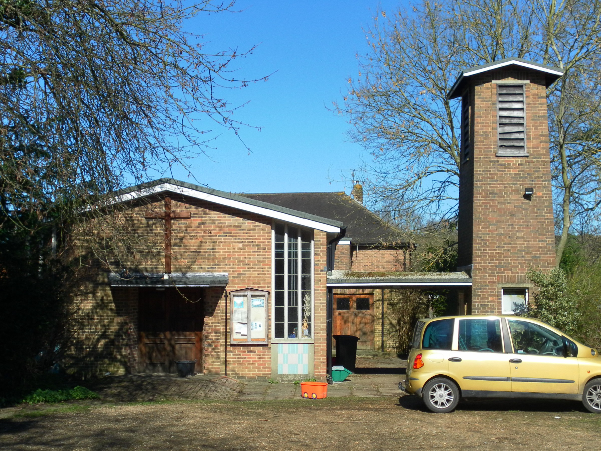 Church of Our Lady of the Forest, Hartfield Road, Forest Row, Wealden District, East Sussex, England. The Roman Catholic church in Forest Row is part of a joint parish with East Grinstead and Lingfield. The dedication refers to Ashdown Forest, to which the village of Forest Row is adjacent.